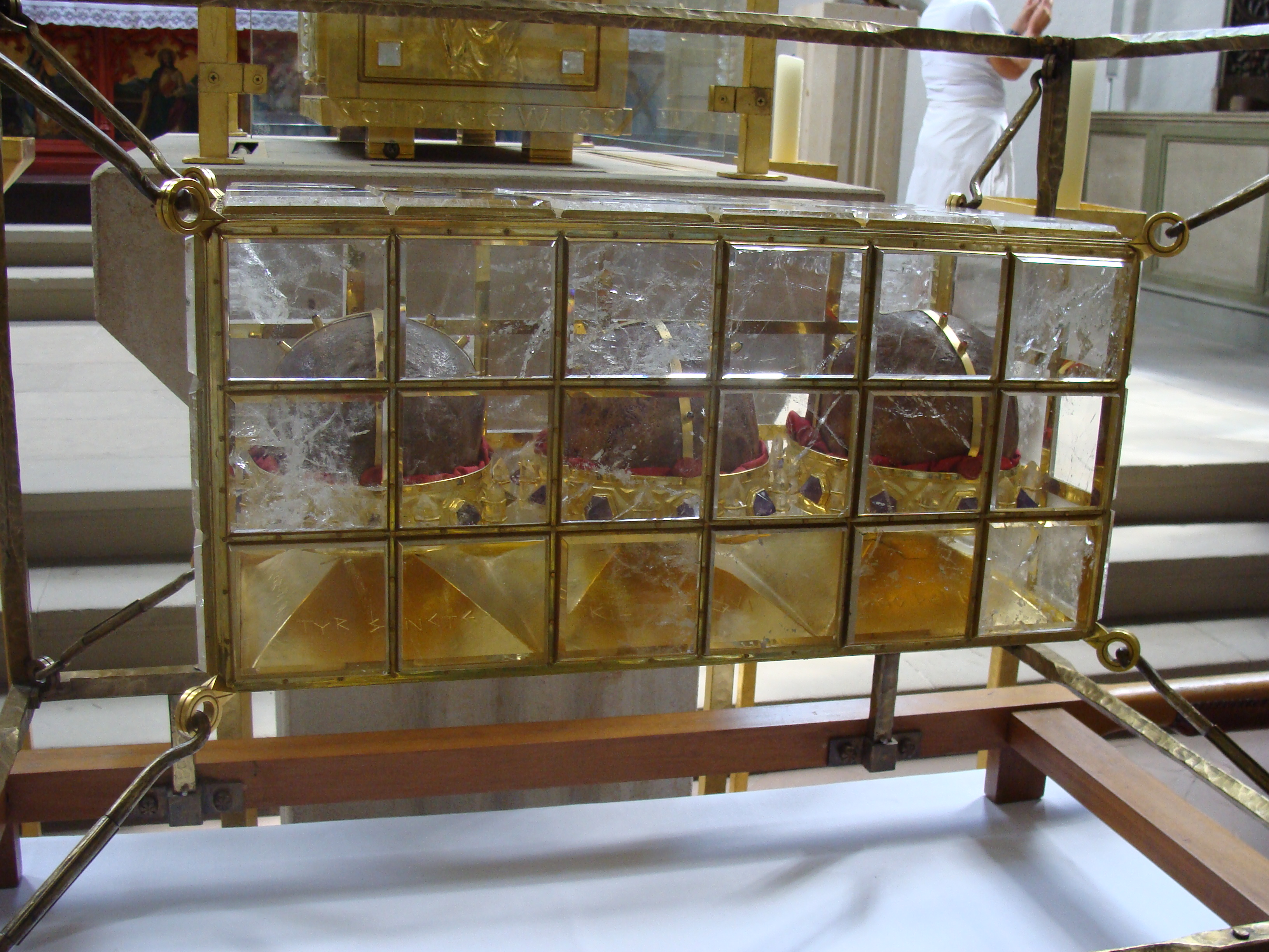 Relic of St. Kilian, Kolonat and Totnan